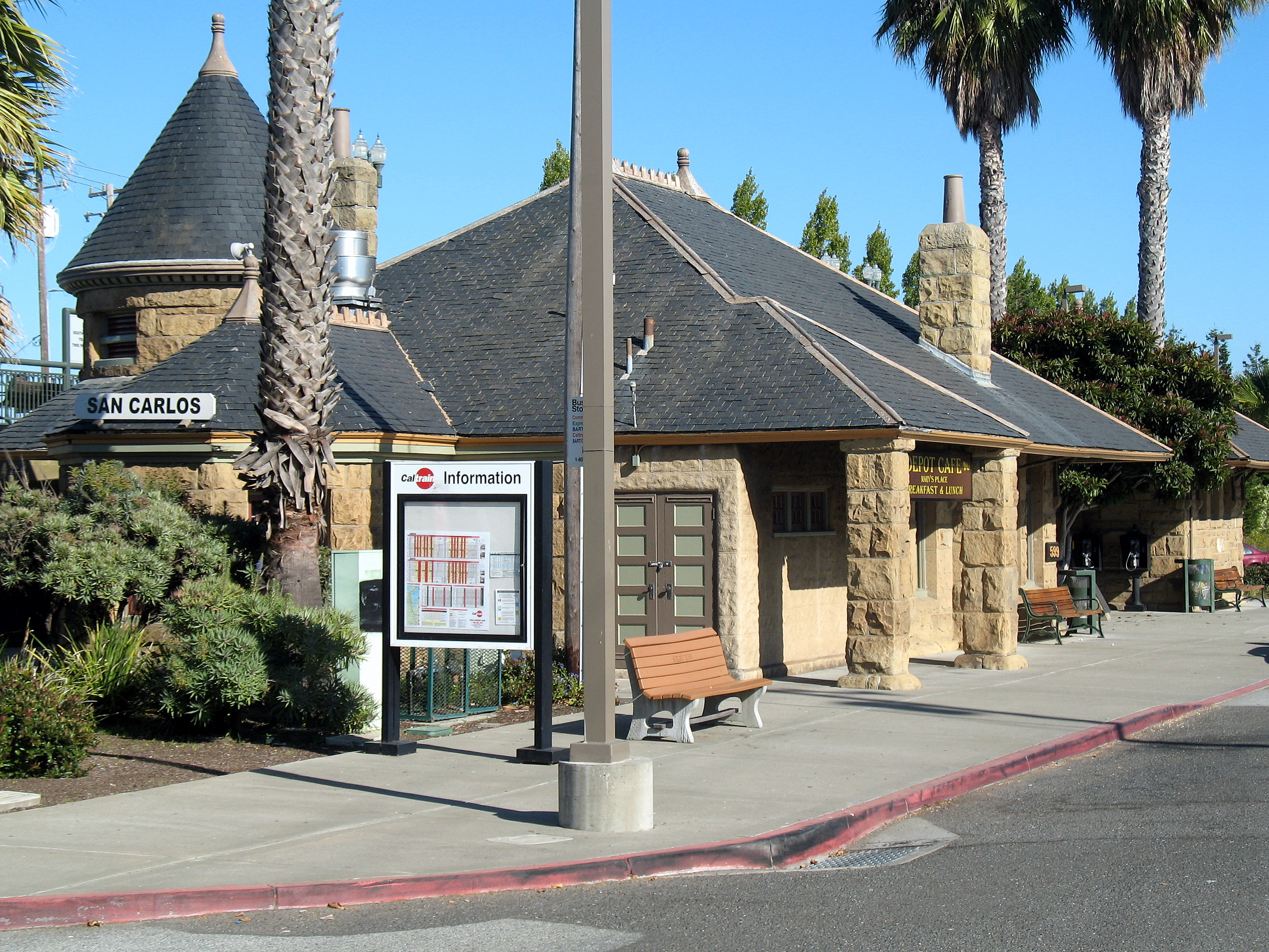 National Register of Historic Places listings in San Mateo County, California. Southern Pacific Depot, 559 El Camino Real, San Carlos, California